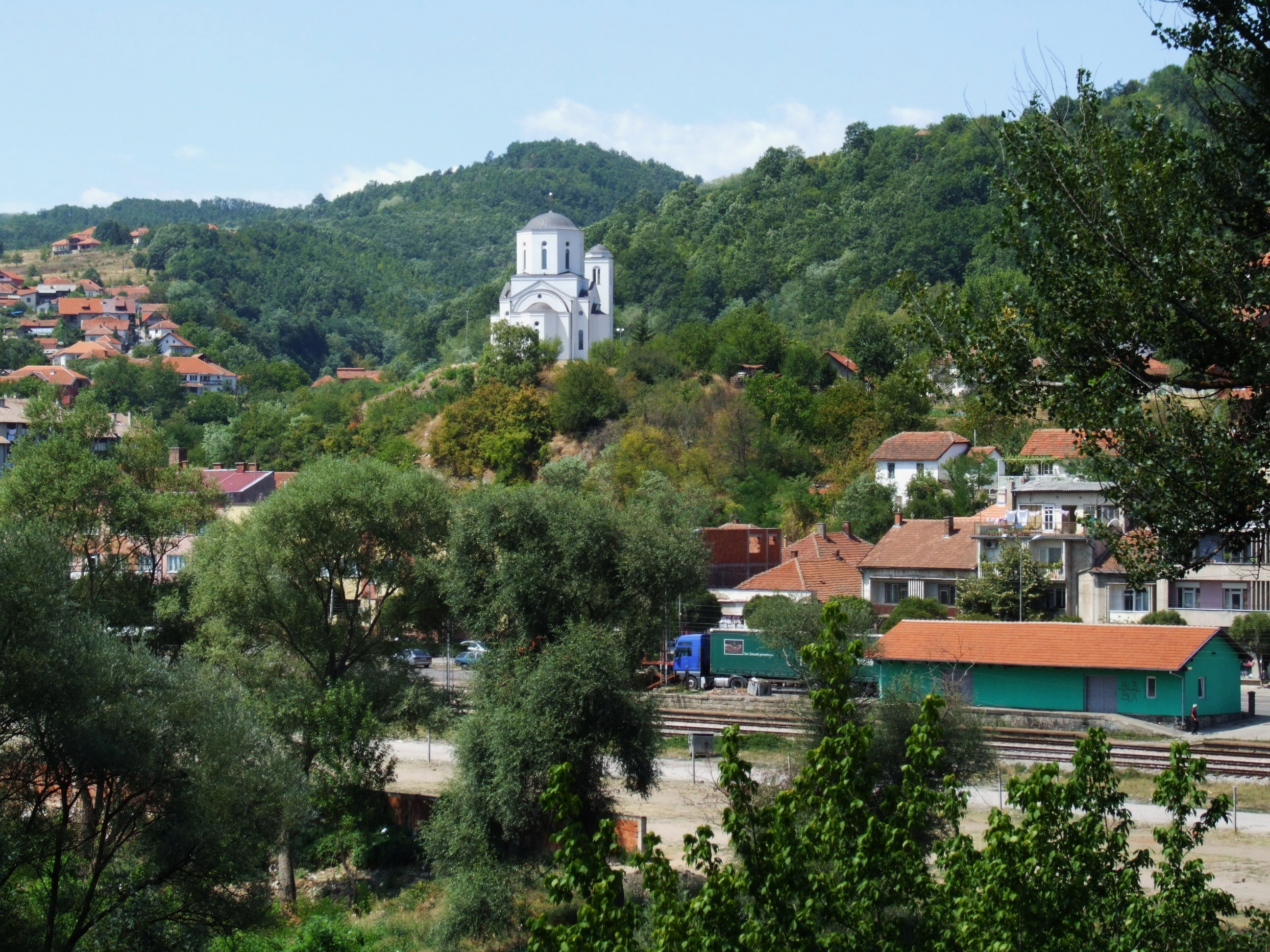 Vladičin Han, Serbia